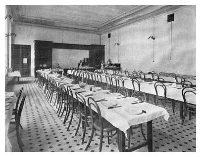 Dining-room of Bestuzhev's courses